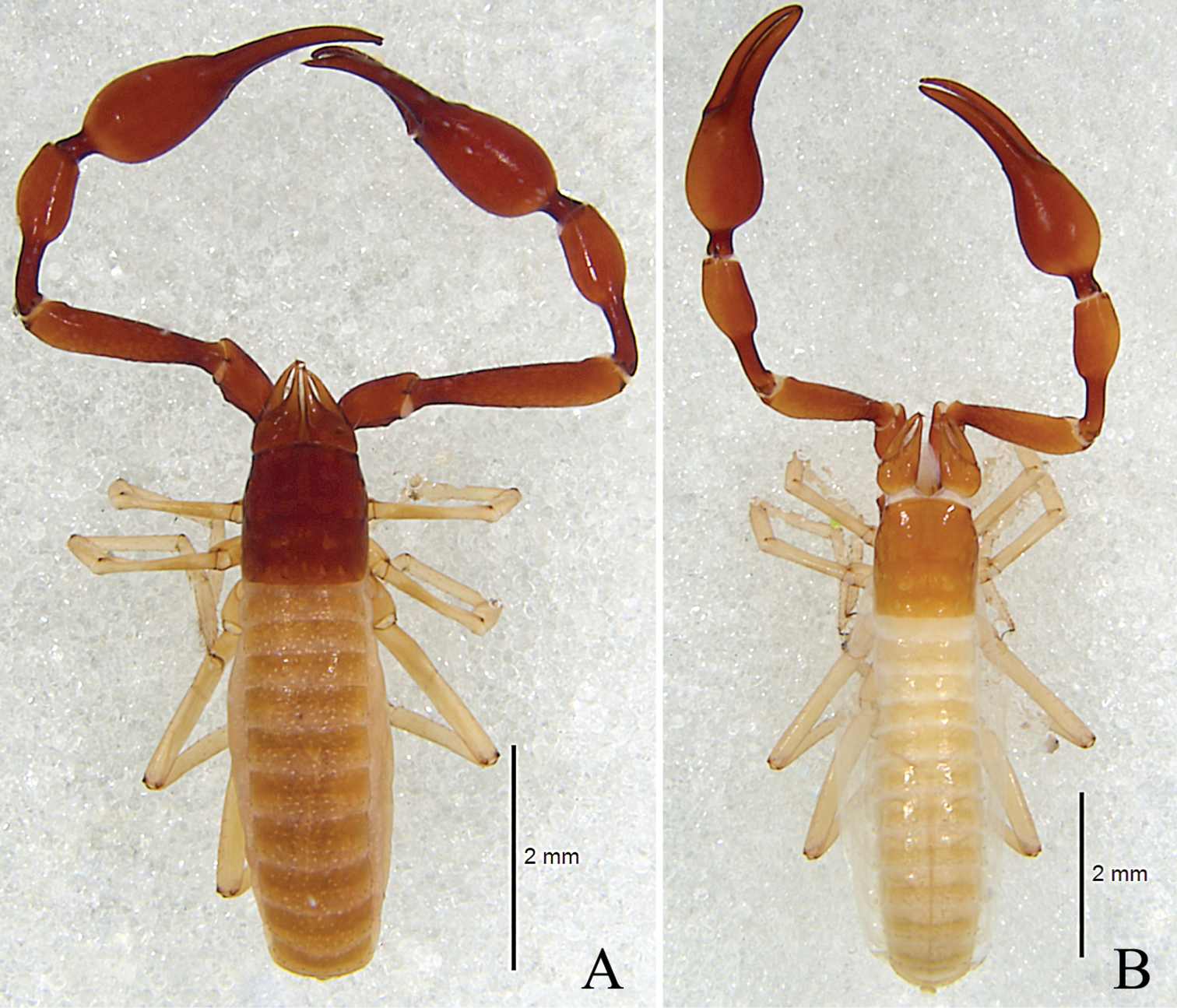 Figure 3; Parobisium motianense sp. nov. A Holotype male, dorsal view B Paratype female, dorsal view.